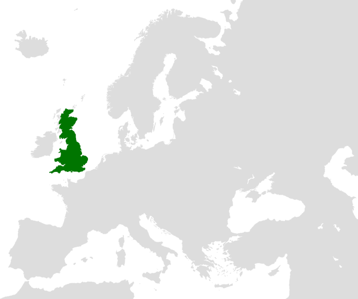 The island of Britain highlighted on a blank map of Europe.